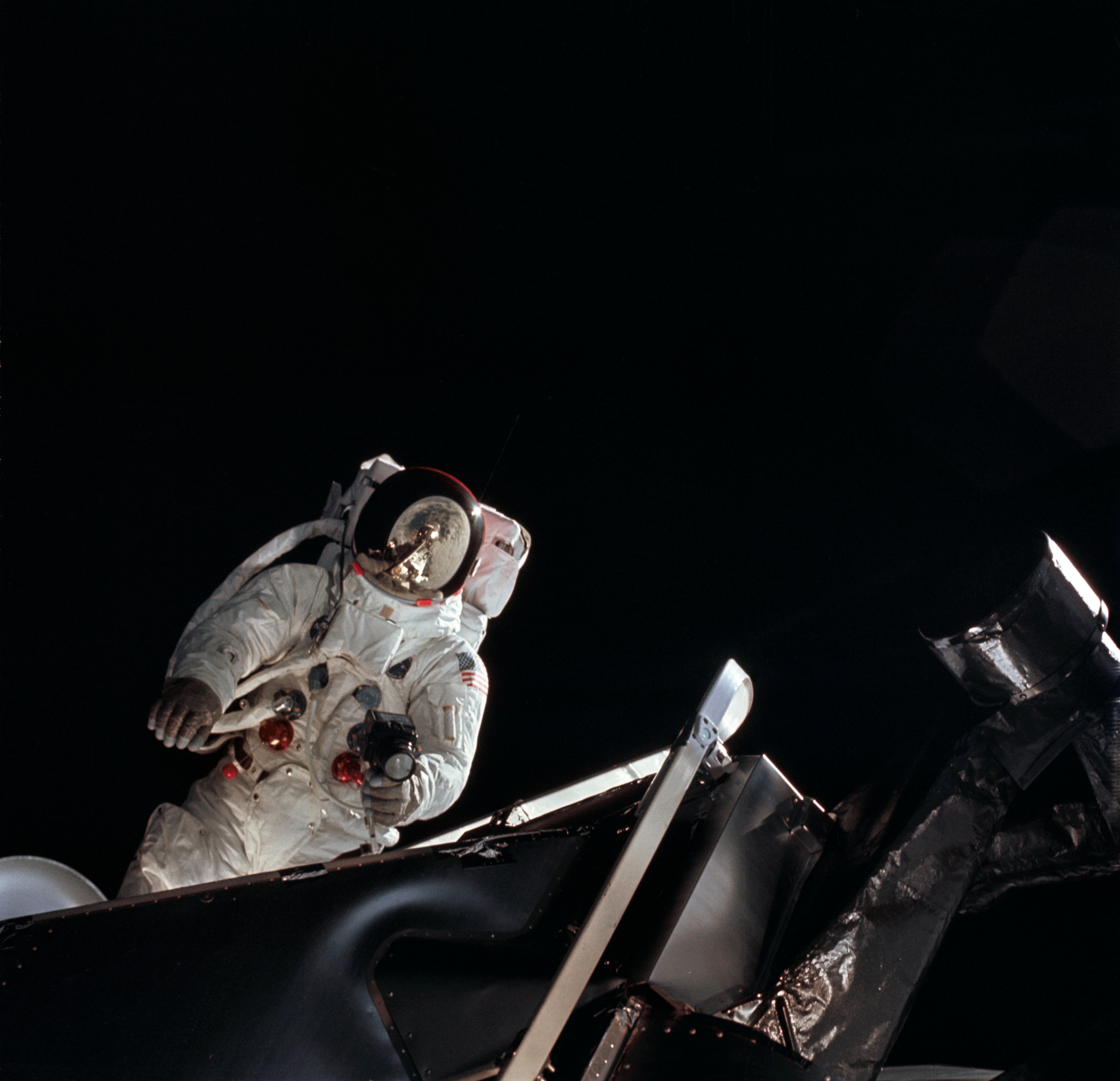 NASA astronaut Russell L. Schweickart, lunar module pilot of the Apollo 9 mission, operating a Hasselblad camera during his extra-vehicular activity in Earth orbit. NASA photo AS09-19-2983 in public domain.